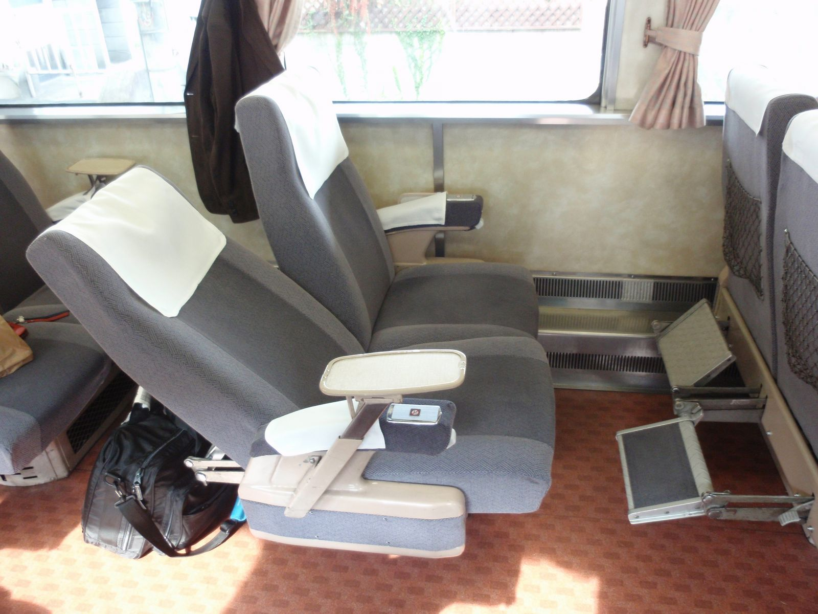 Seat of West Japan Railway Co.,type DMU 181 Kiro180-12(first class)